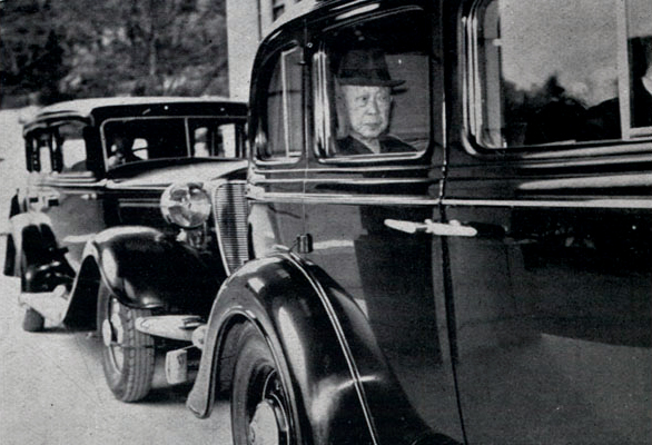 Kinmochi Saionji (西園寺公望) after having recommended Koki Hirota as new prime minister.